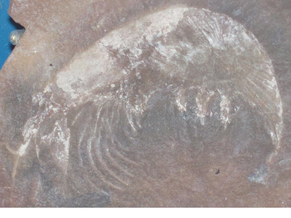 Kallidecthes richardsoni Schram, 1969 - laterally compressed fossil shrimp in concretion from the Mazon Creek Lagerstätte (Middle Pennsylvanian) of Illinois, USA (FMNH PE 37598, Field Museum of Natural History, Chicago, Illinois, USA). Classification: Animalia, Arthropoda, Crustacea, Malacostraca, Hoplocarida, Aeschronectida